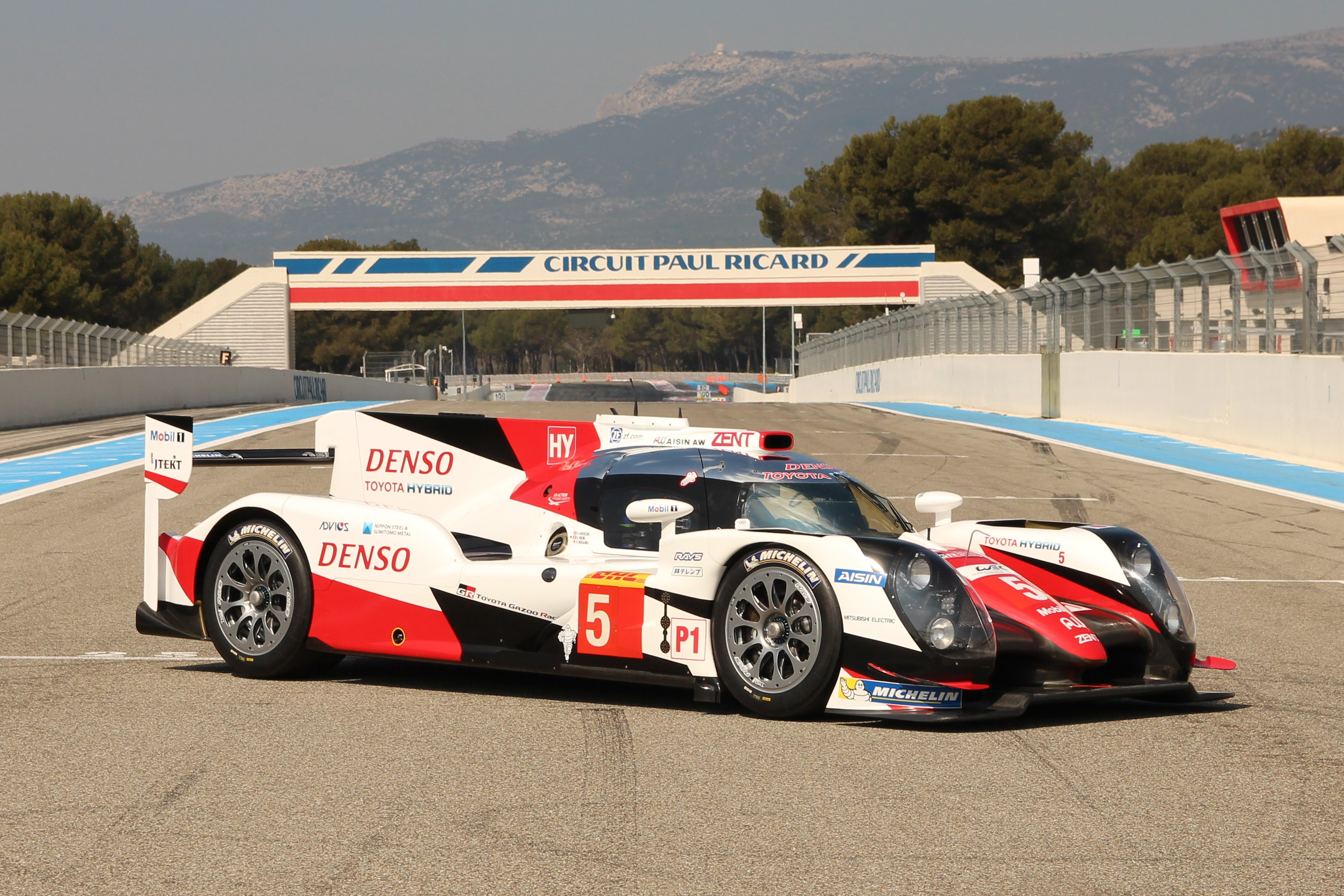 Toyota TS050 Hybrid unveiled at Circuit Paul Ricard, Le Castellet, France on 24 March 2016